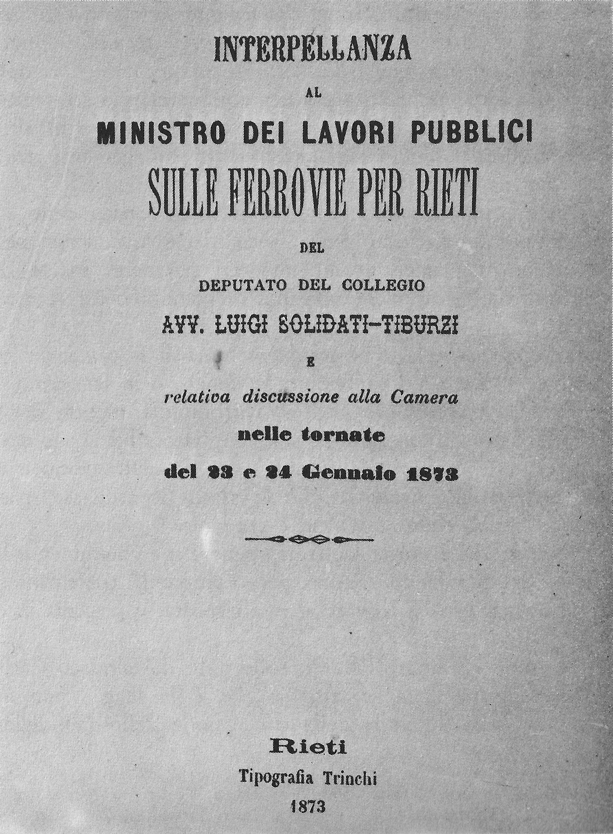 Frontispiece of a parliamentary question time by member of Italian parliament Luigi Solidati Tiburzi in favor of railways in the Sabine region